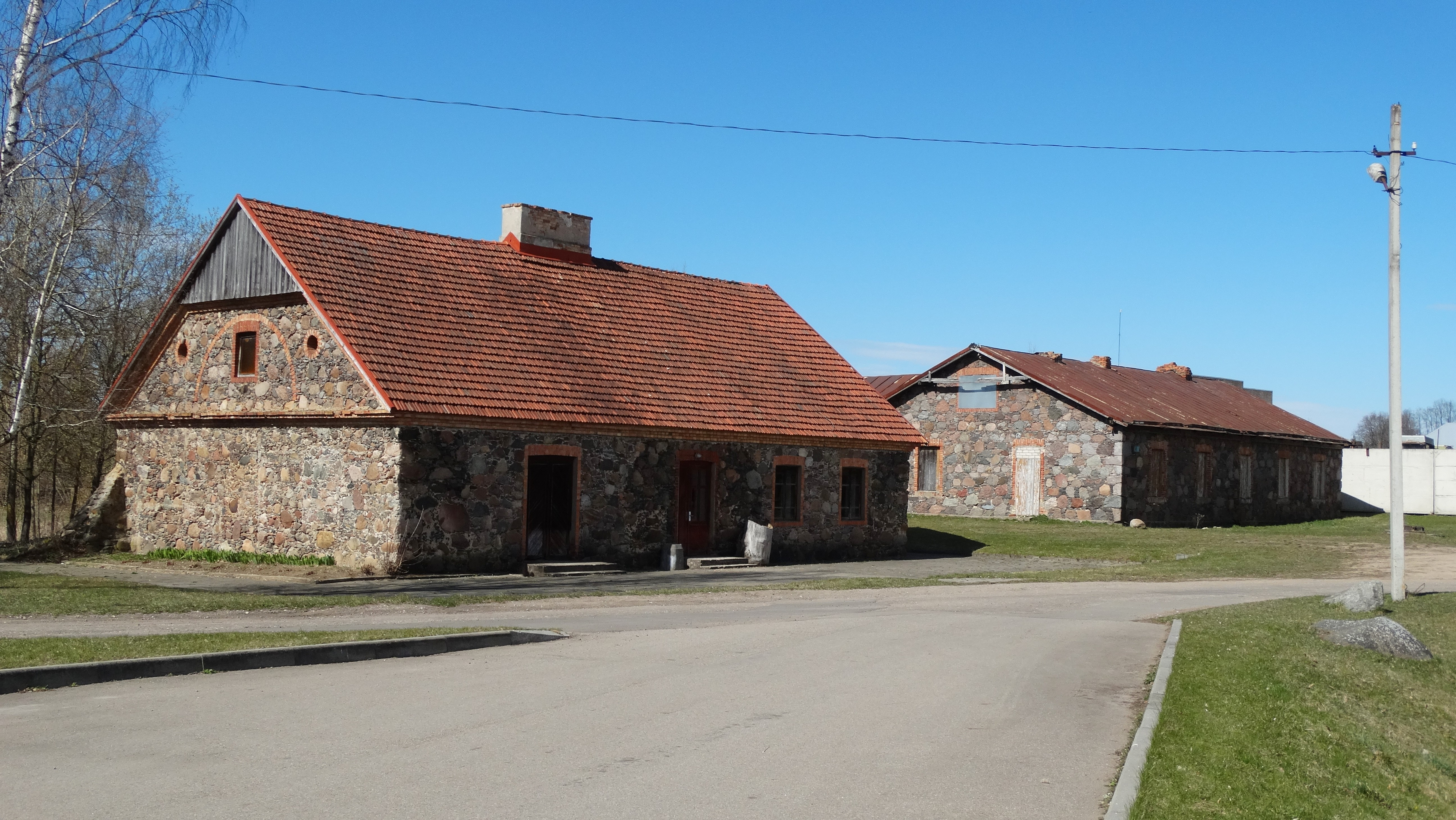 Former manor buildings, Pakiršinys, Radviliškis district, Lithuania